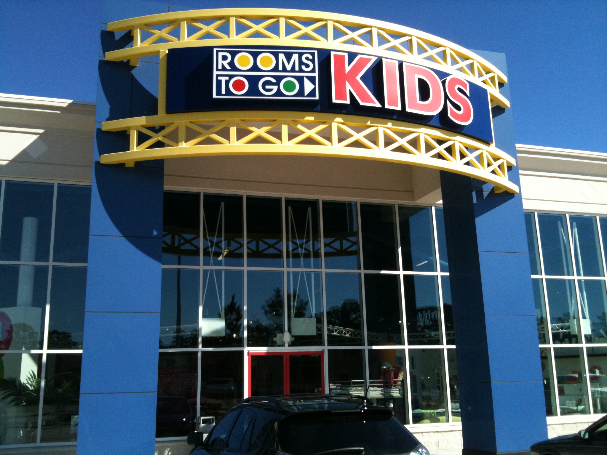 See social profiles for this & other local Woodlands businesses at . Is this your business? Want a better picture for your listing? Claim it!